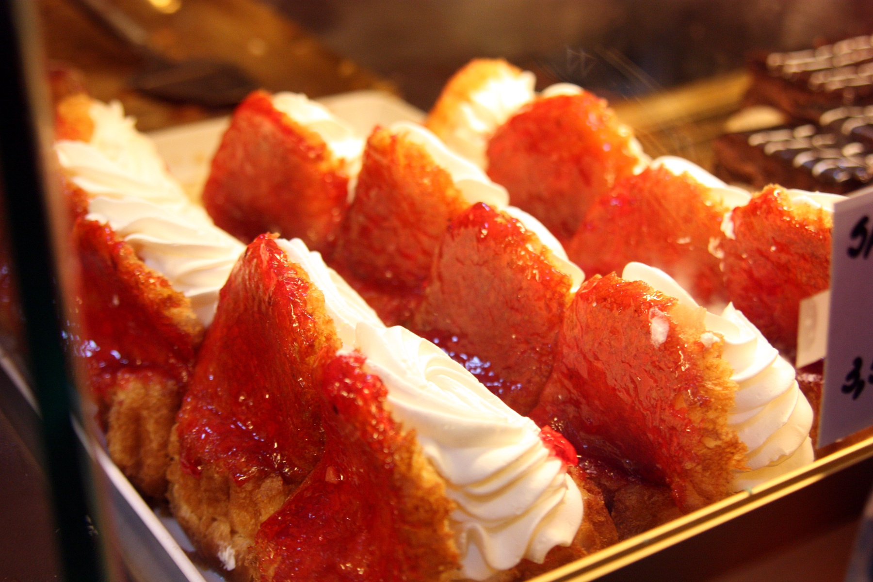 Savarins are a kind of Rhum baba. Here as traditionally prepared in the Romaninan confectionery, with Rhum and Whipped Cream